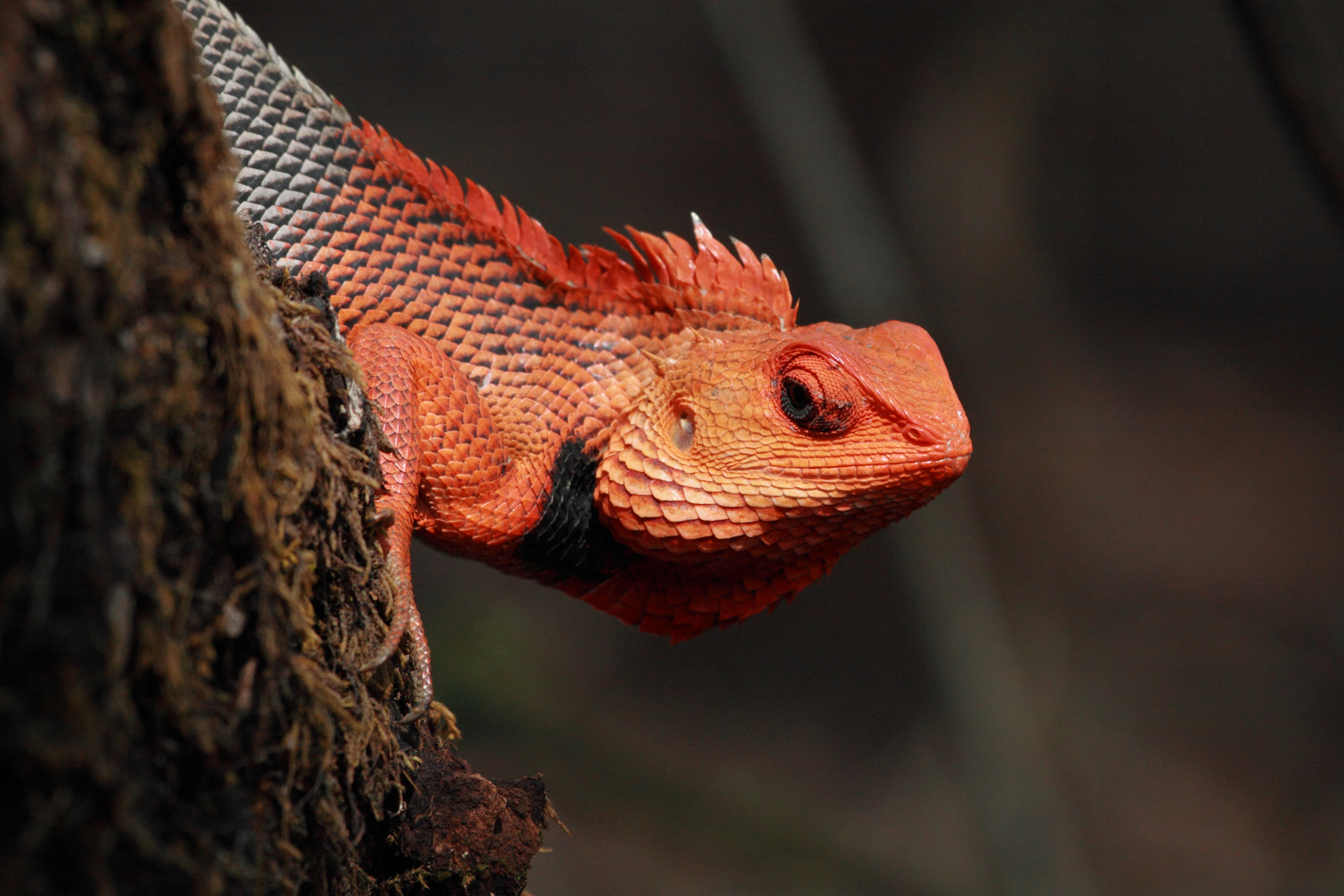 Male in breeding season